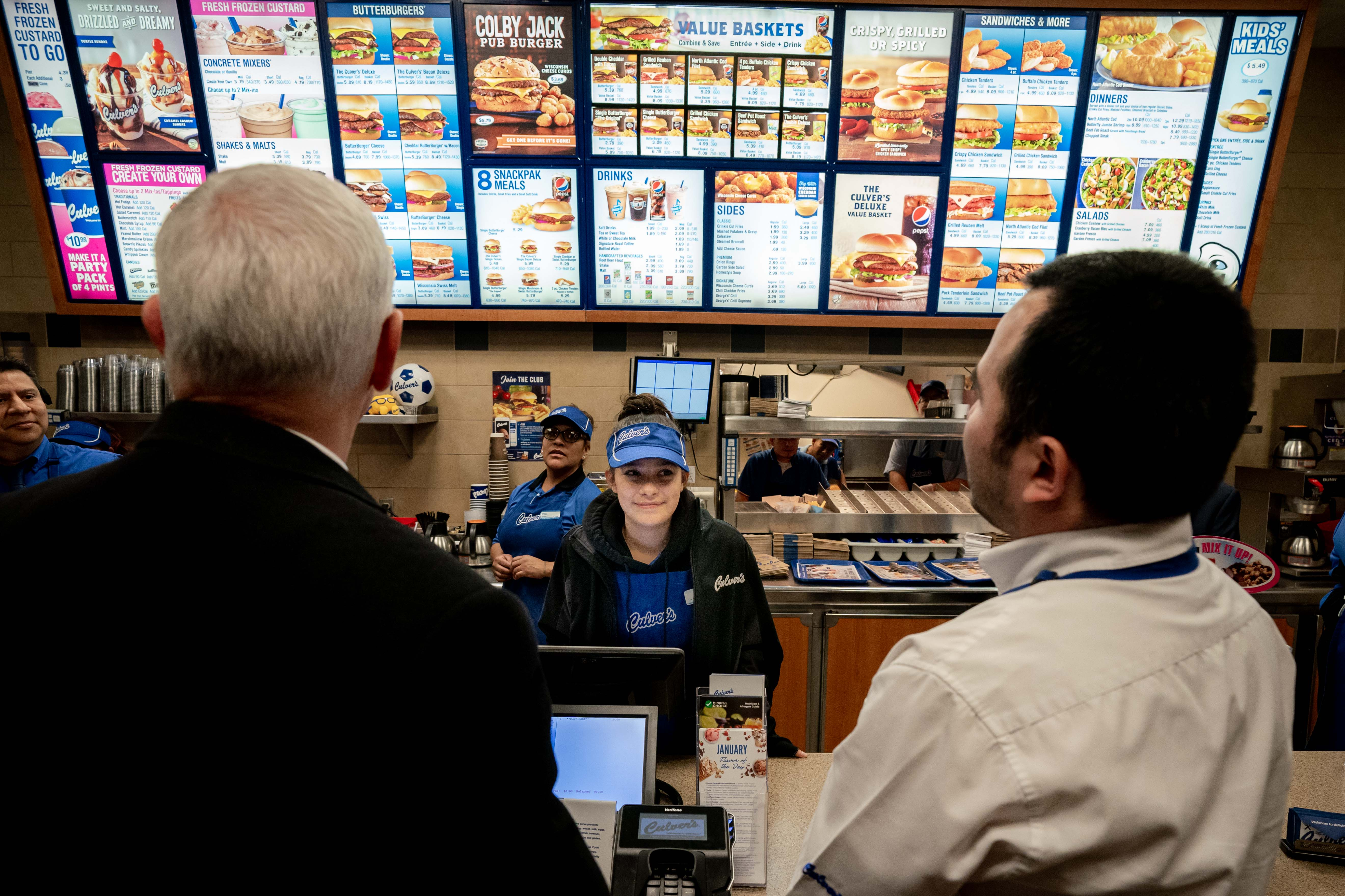 Vice President Mike Pence makes a stop at Culver’s restaurant Tuesday, January 14, 2020, in Milwaukee, WI. (Official White House Photo by D. Myles Cullen)